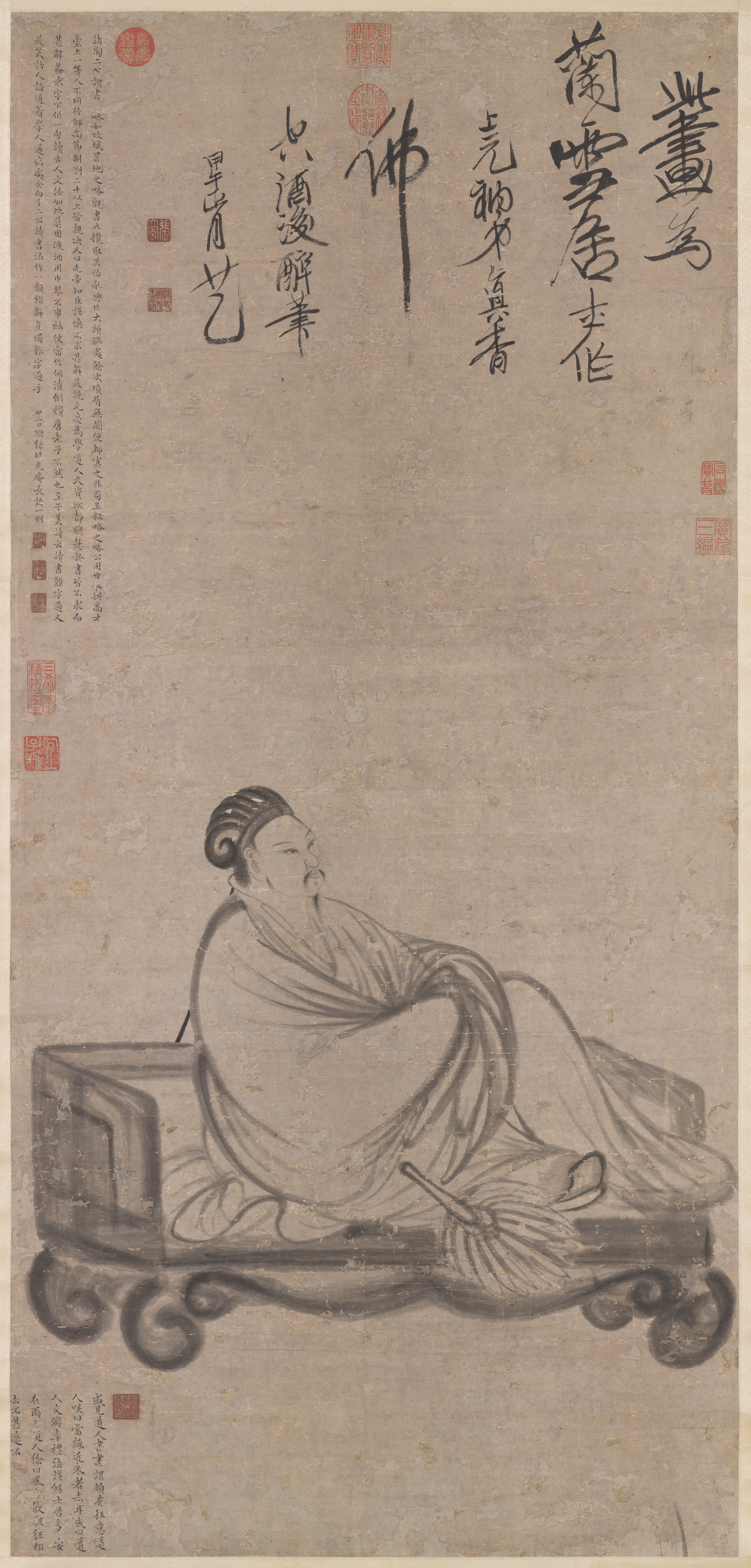 This painting depicts Zhuge Liang reclining on a daybed. It was done with lines of light and dark ink repeated over and over with the exception of the facial features. Zhang Feng mentions in the bold inscription that he did the painting after he became drunk.